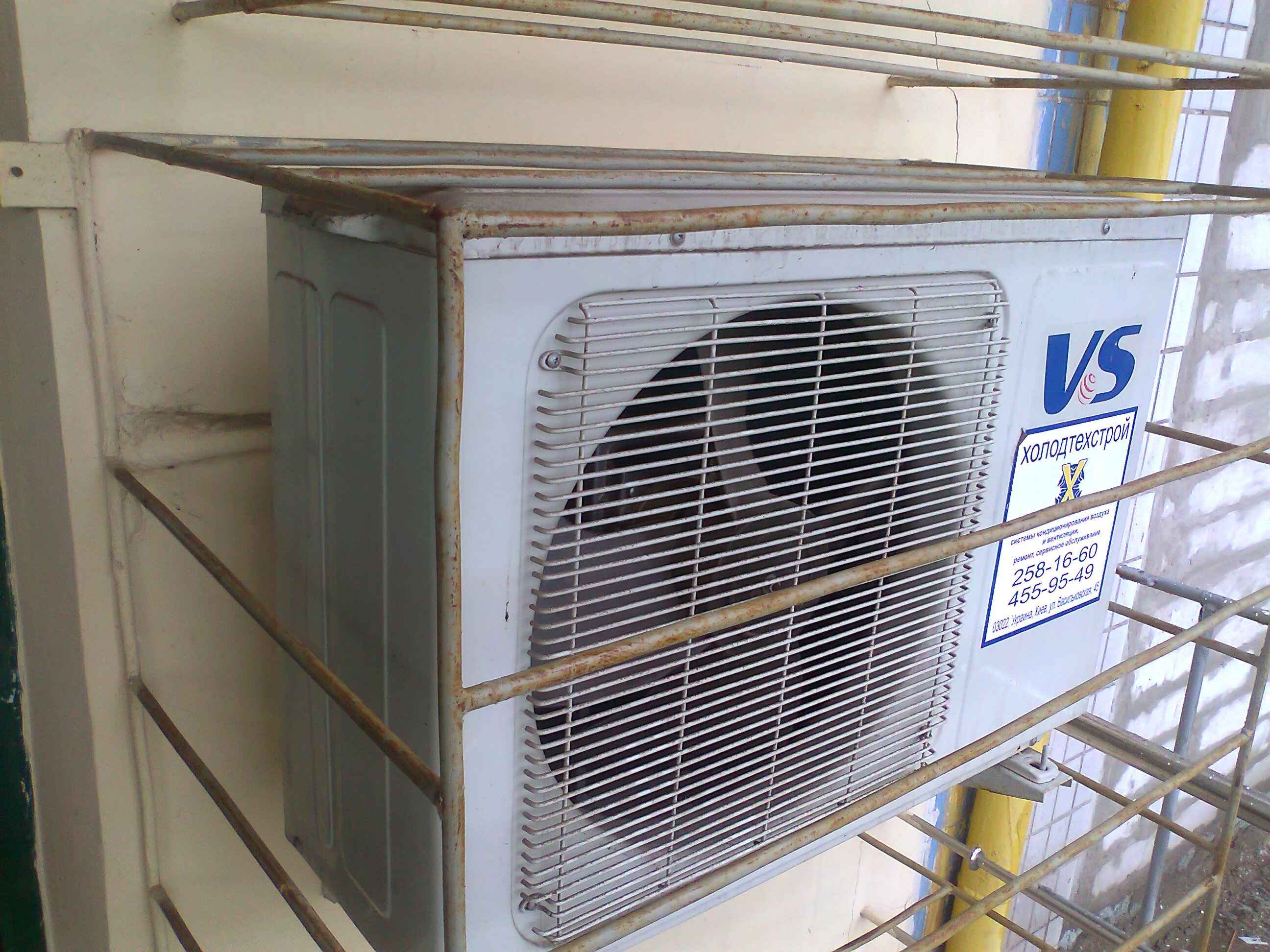 Air conditioner external block